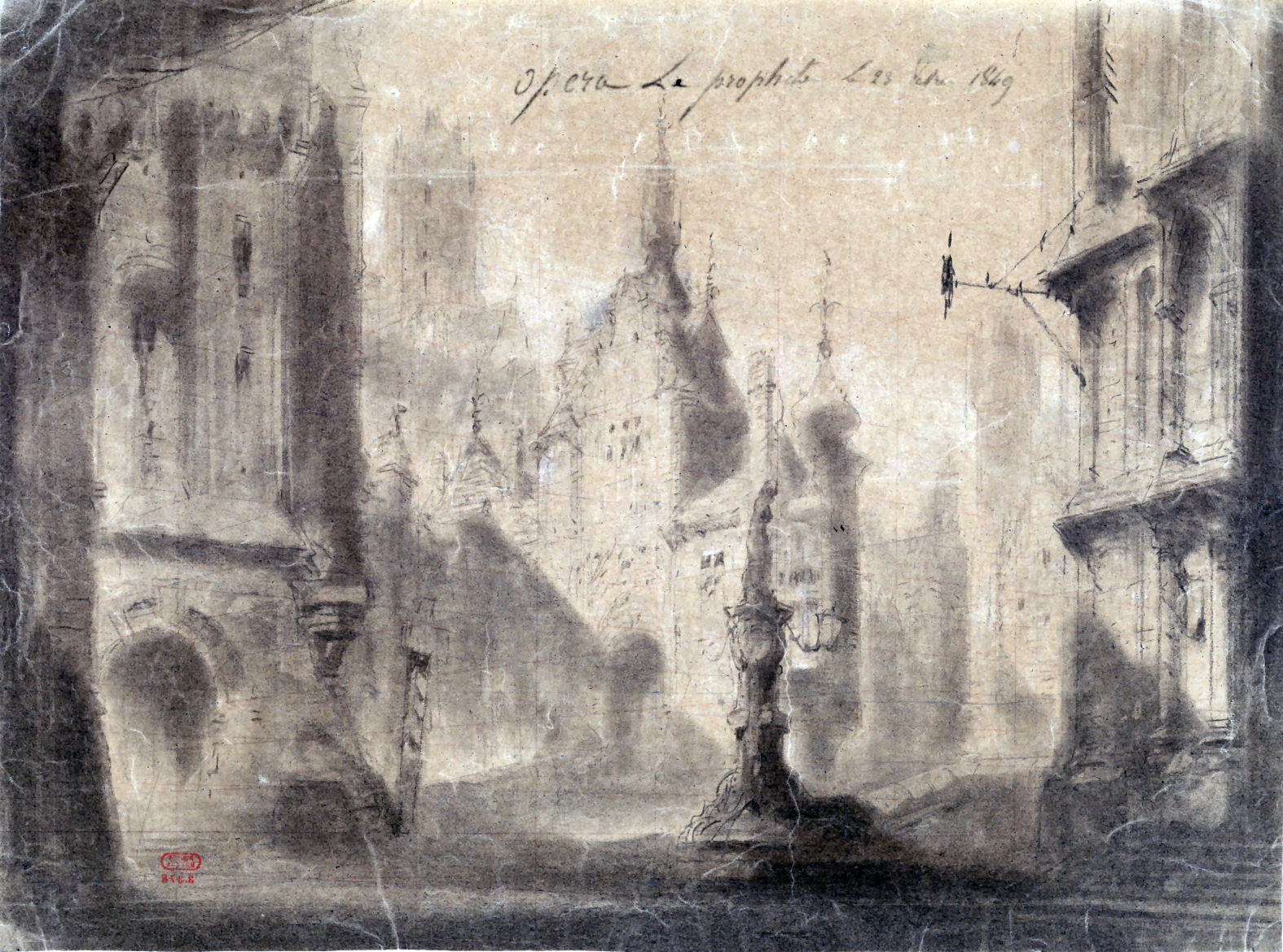 Le Prophète : sketch of the opera set for the first scene of the fourth act (1849) by Charles Cambon (1802-1875)